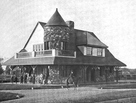 Public library and railroad station in Millis, Massachusetts. The first floor was used for the station, and the second for the library and town offices.